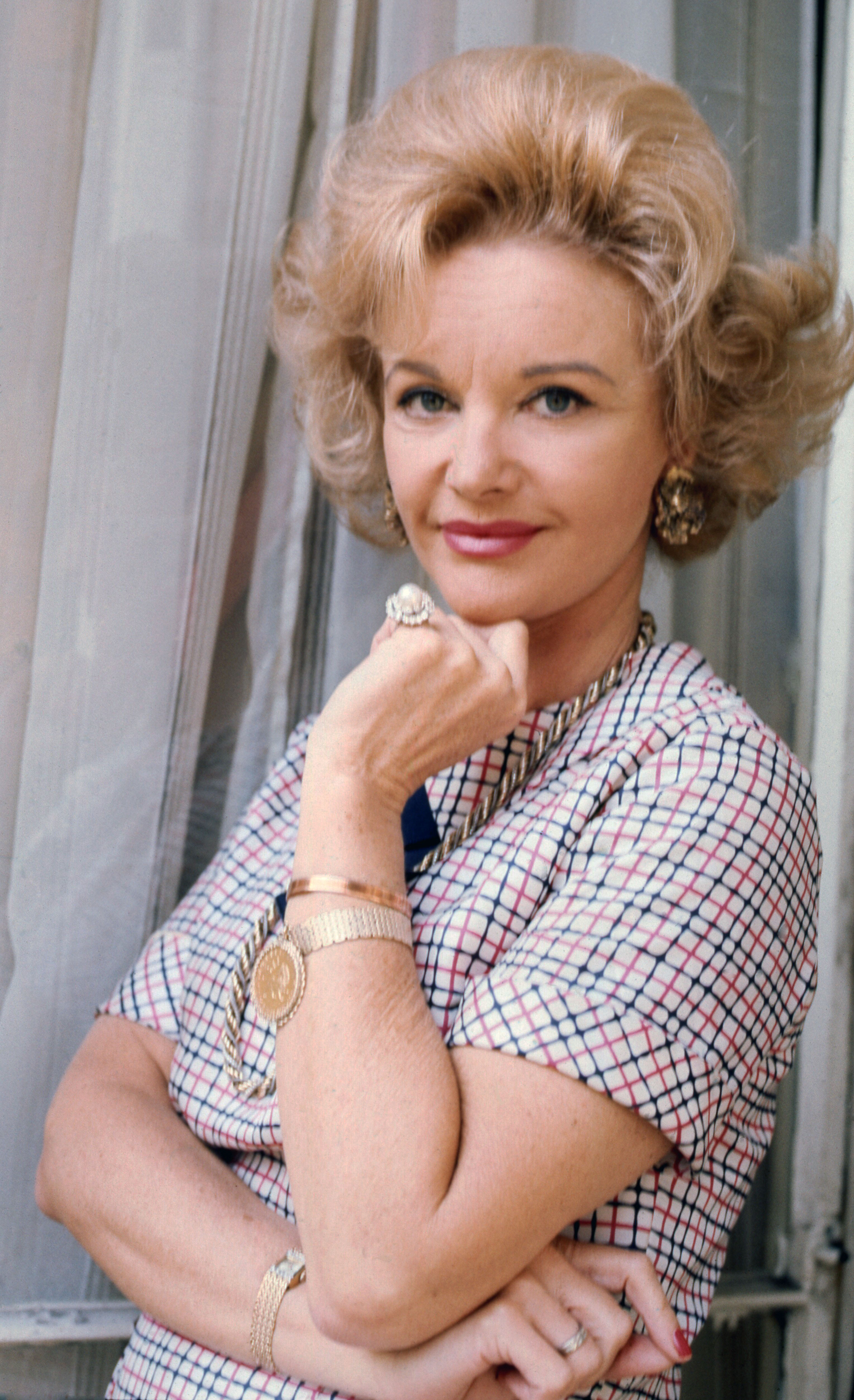 Moira Lister at home in London